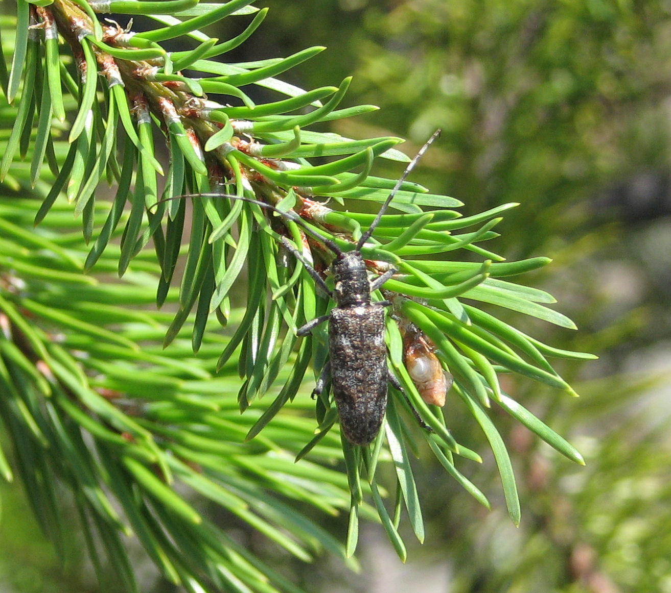 Longhorn Beetle (Monochamus mutator) found near Temagami, Ontario, Canada